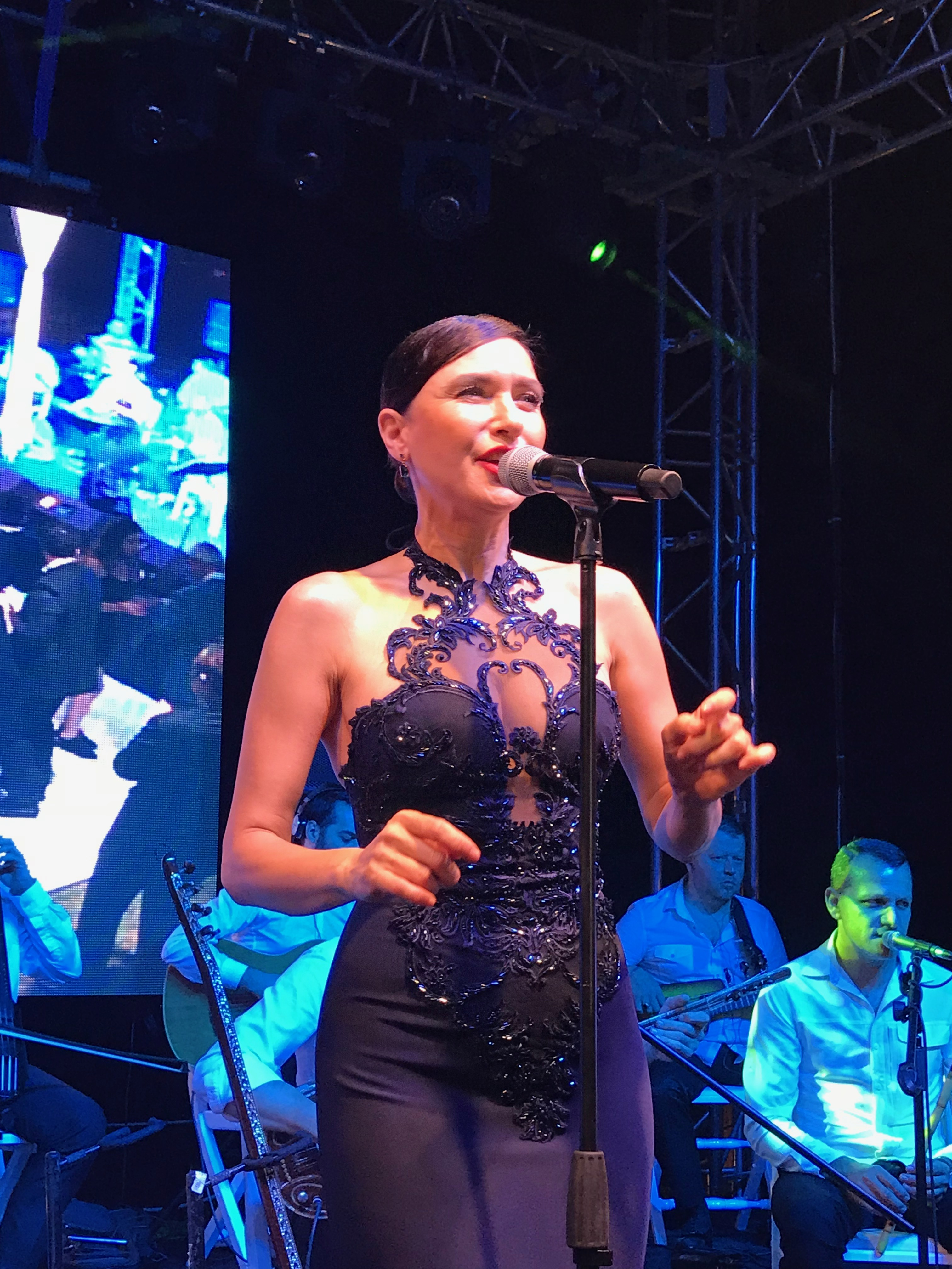 Şevval Sam performing in Çeşme, June 2018.